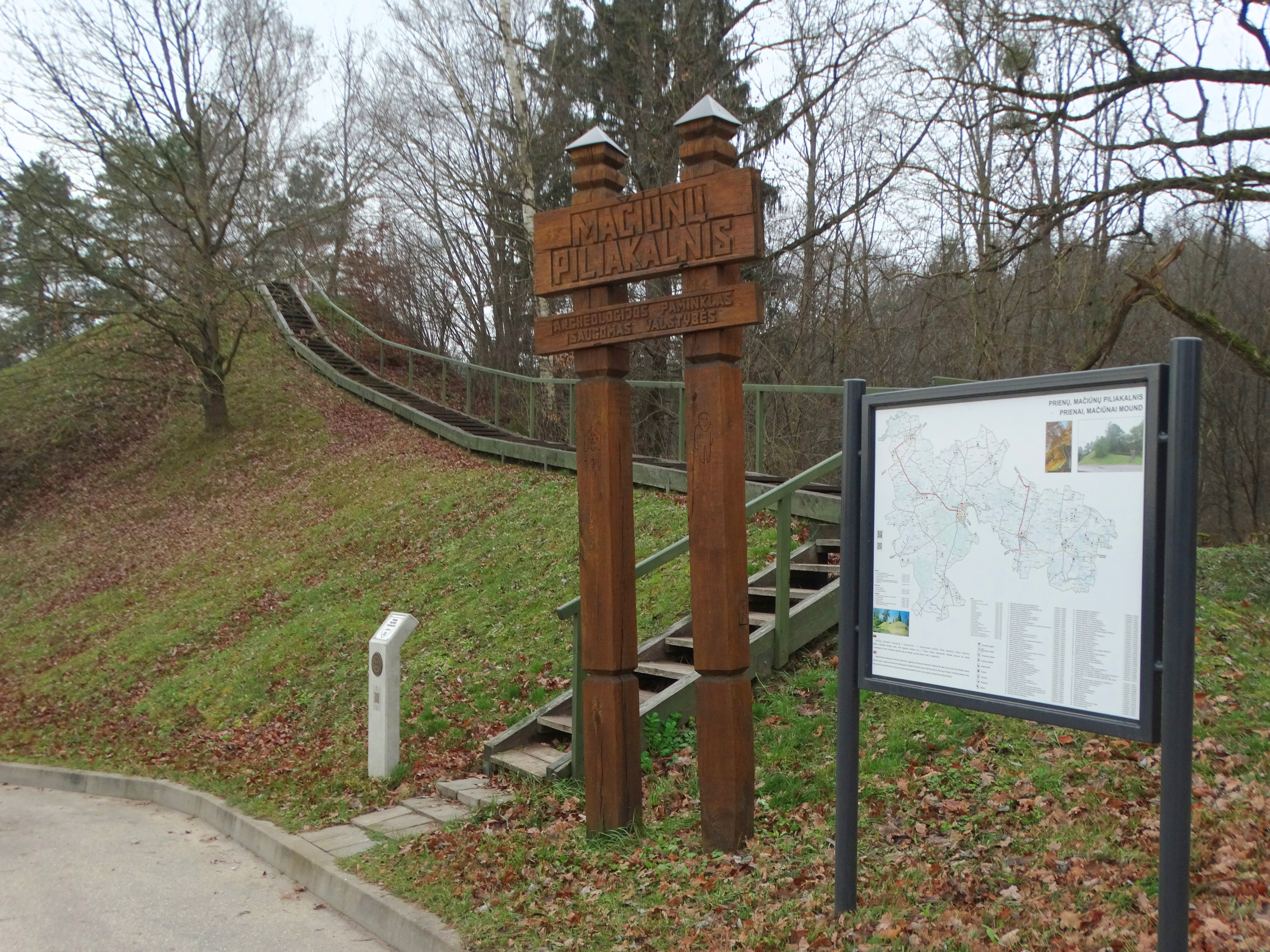 Hillfort by Prienai, Lithuania